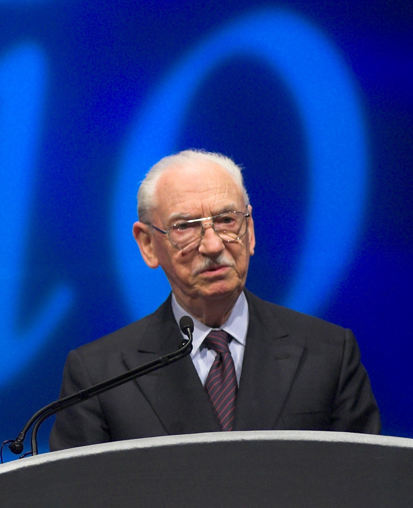 Photograph of Alejandro Zaffaroni recipient of the 2006 Biotechnology Heritage Award, making his acceptance speech at the 2006 Biotechnology Industry Organization (BIO) annual international convention, April 10, 2006, at McCormick Place Convention Center in Chicago. The award was presented by the Chemical Heritage Foundation and the Biotechnology Industry Organization (BIO).